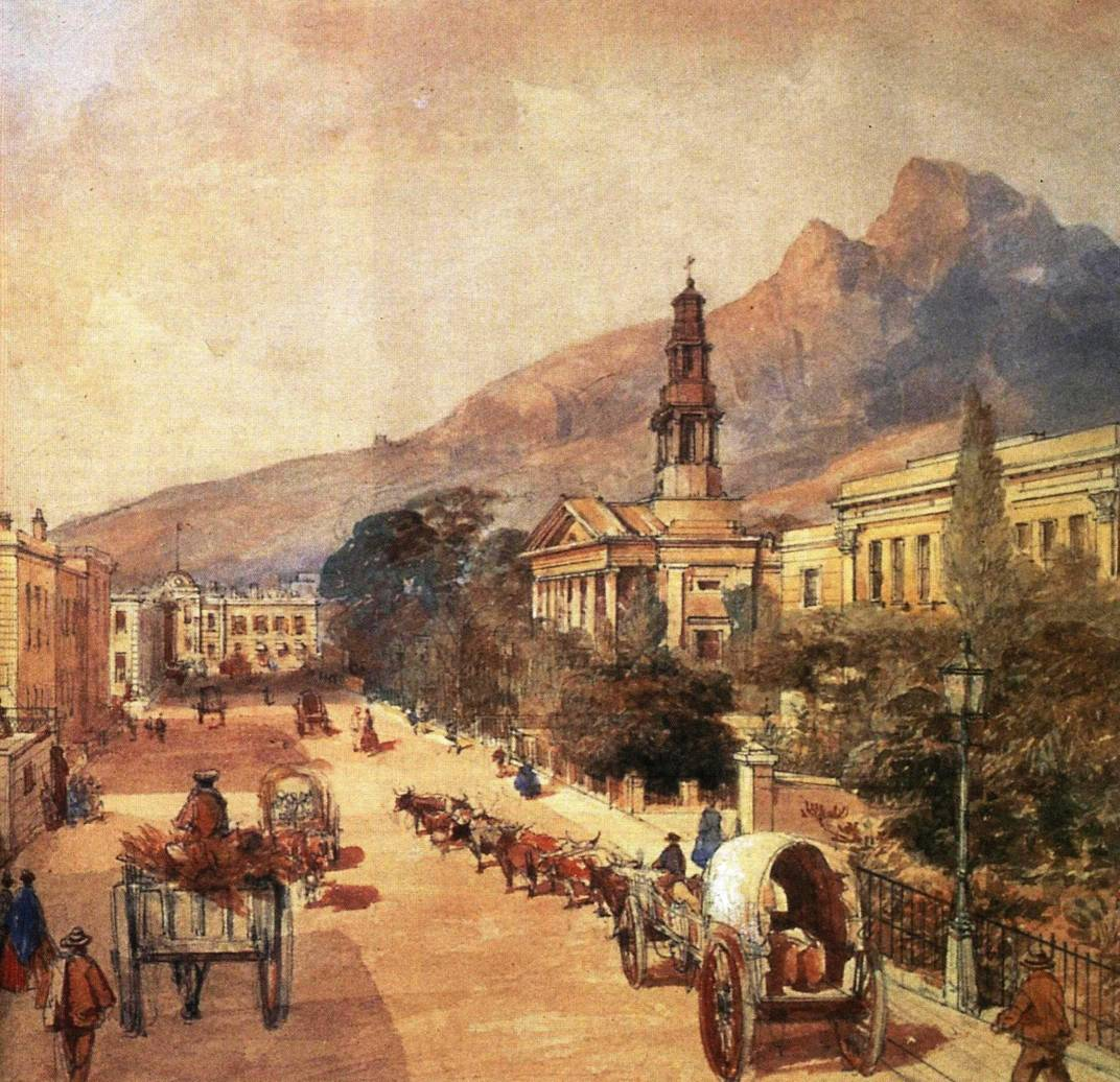 Old painting of Cape Town centre. Cape Colony. 1800s.